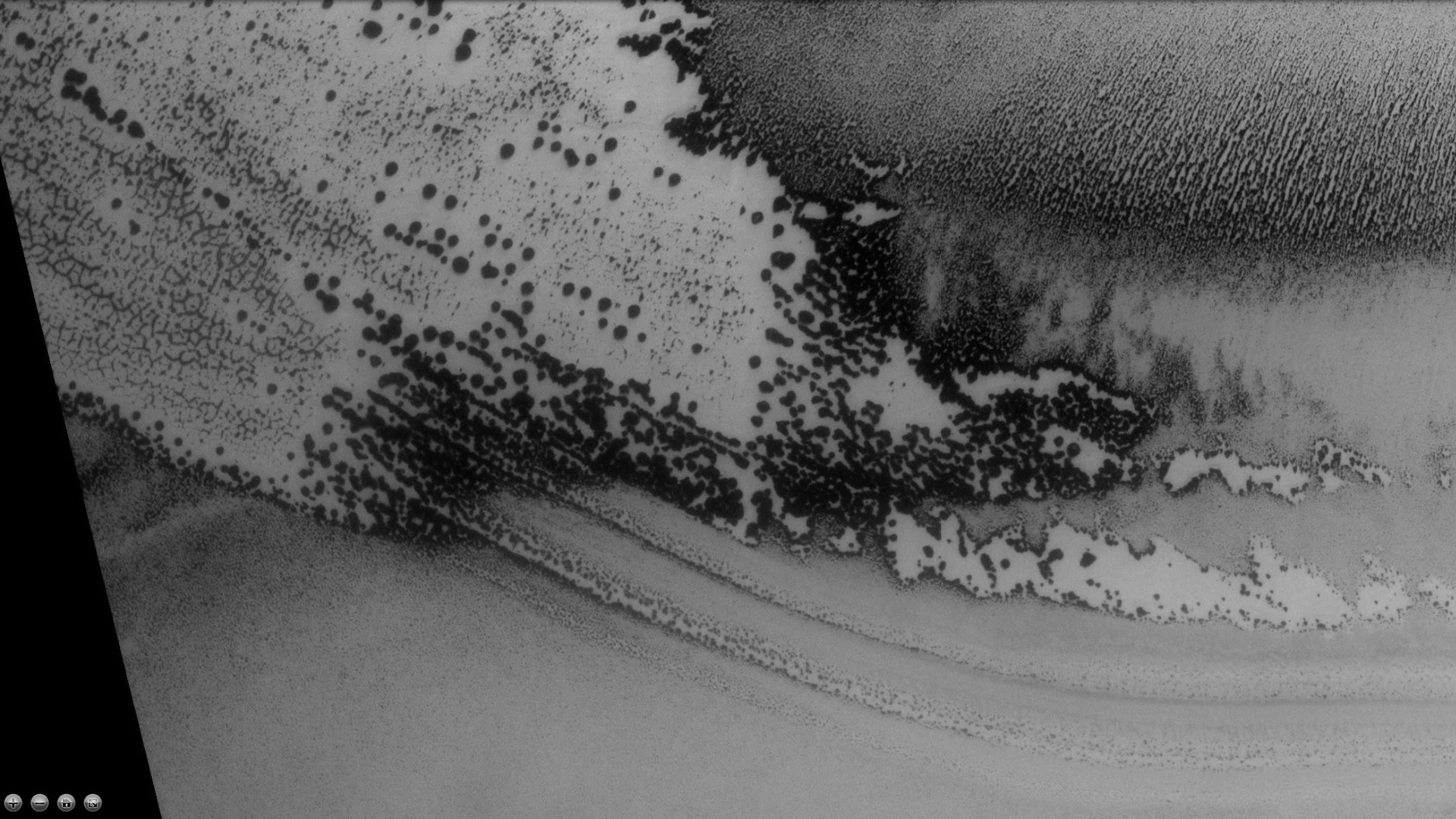 Playfair crater showing defrosting, as seen by ctx